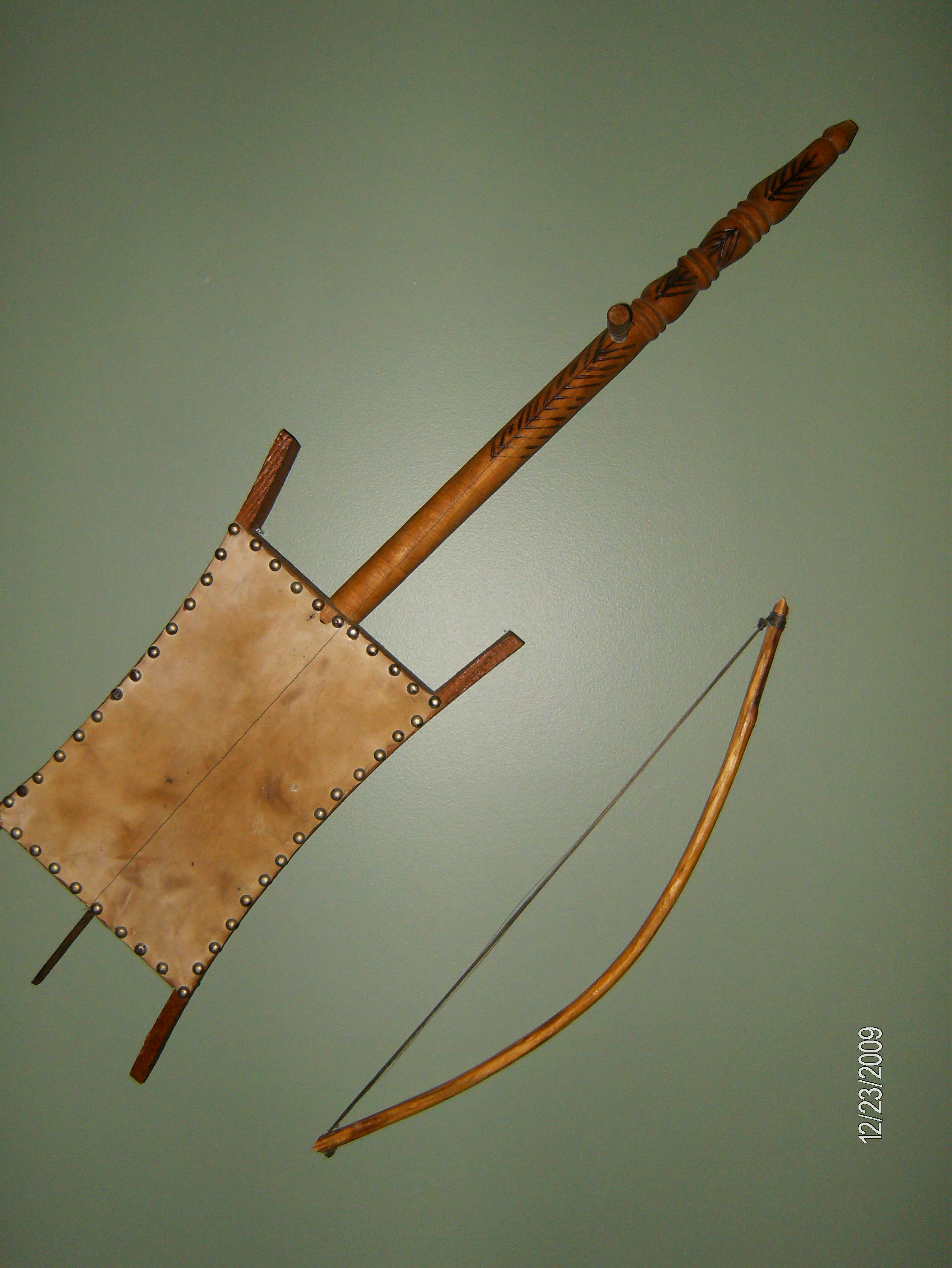 The Rababy Instrument. The Rababy instrument comes from Lebanon. It is played sitting cross-legged using a single string played with a bow. the actual orgins are not known. It is however the namesake for the Rababy family also from Lebanon who have immigrated all over the world to include; The US, UK, France, and Brazil.